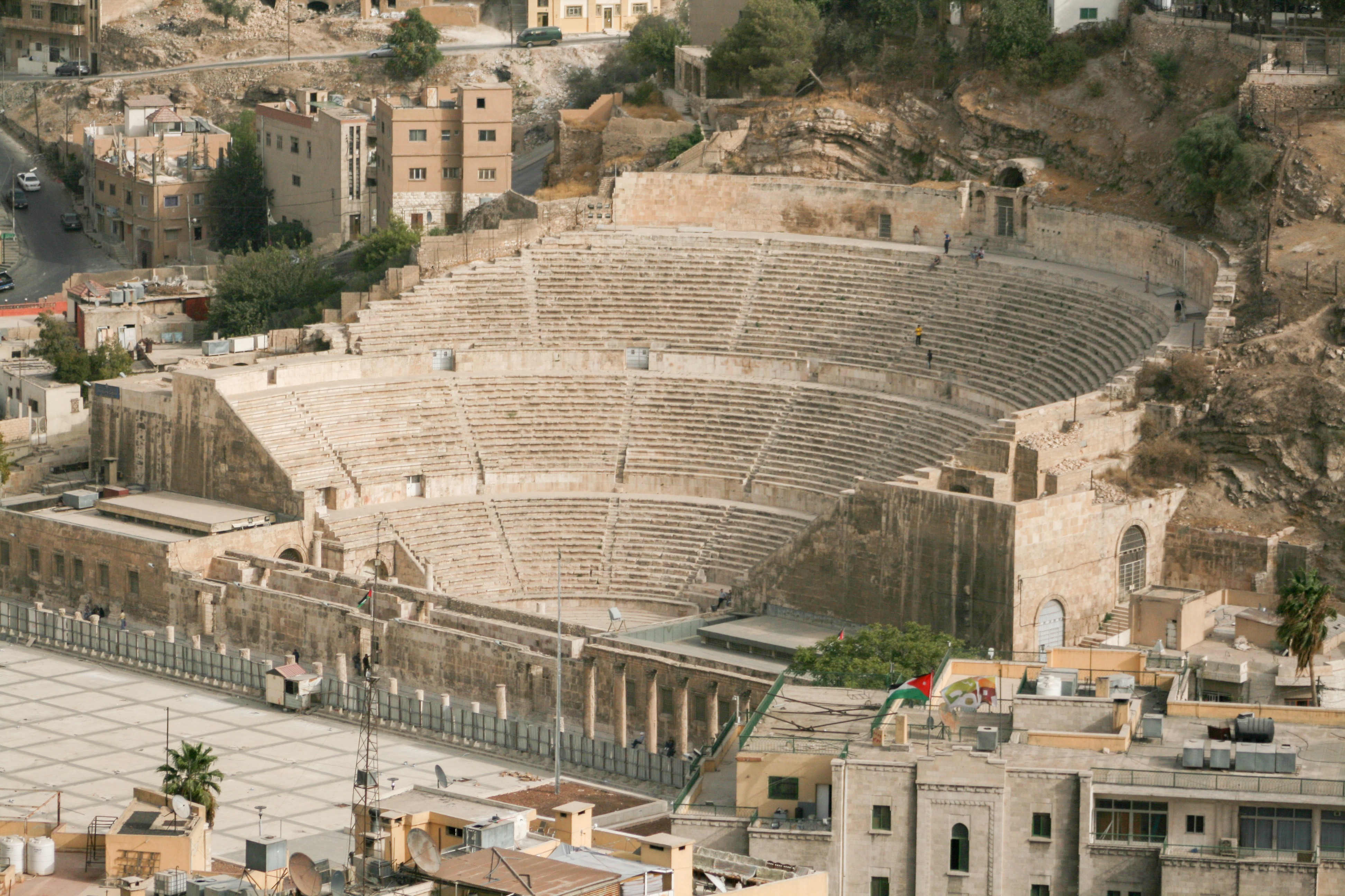 Roman theater in Amman, Jordan